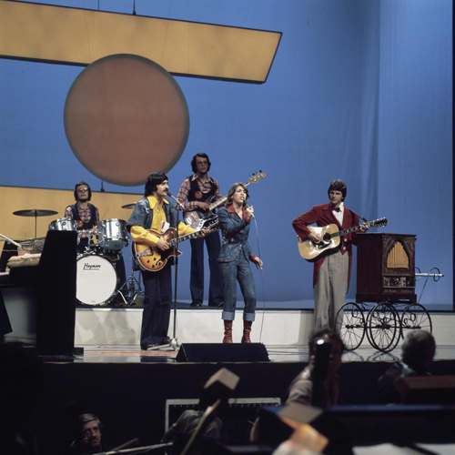 Peter, Sue & Marc at a rehearsal for the Eurovision Song Contest 1976.